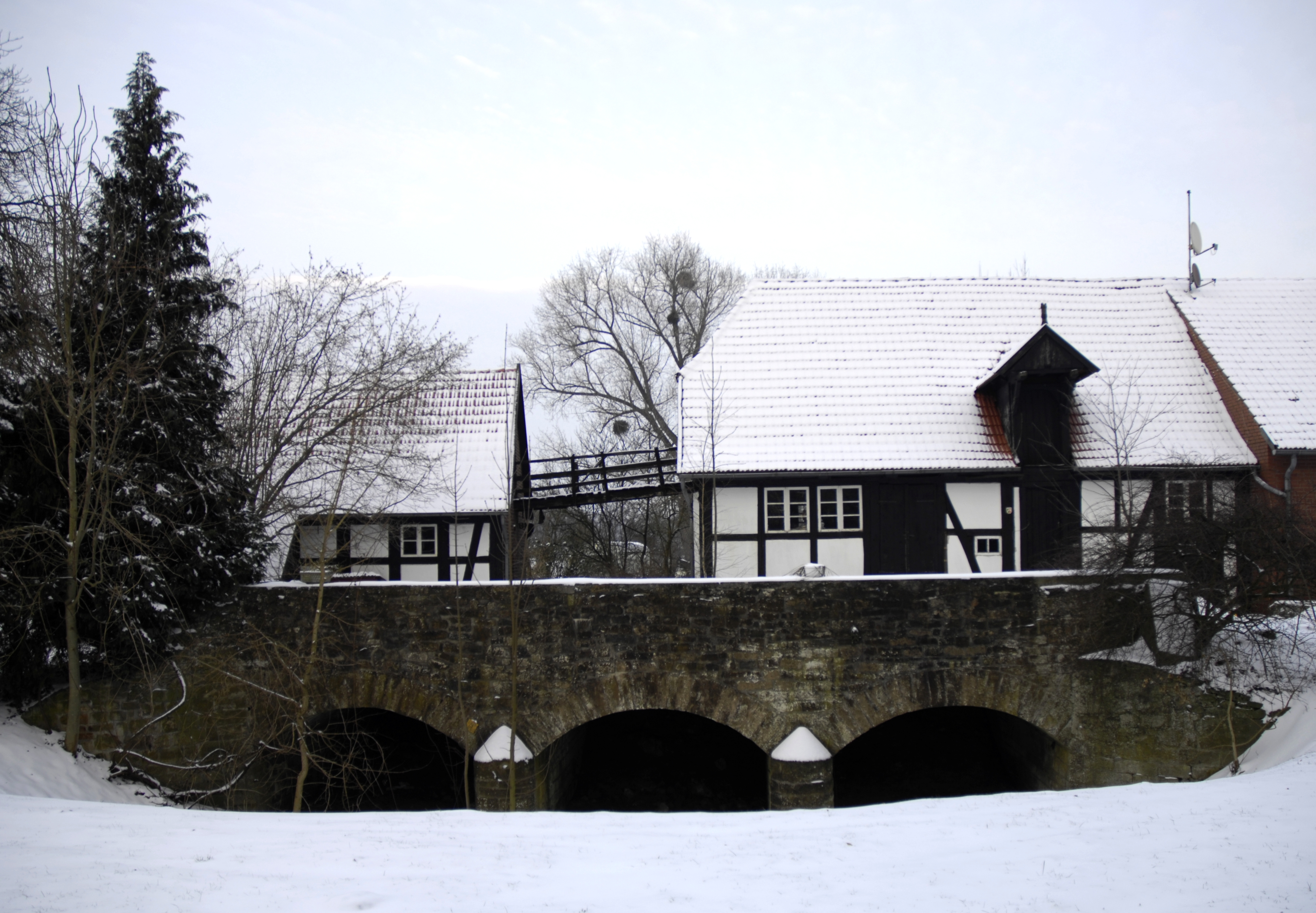 This image shows a heritage building in Germany, located in the North Rhine-Westphalian city Espelkamp (no. 1).